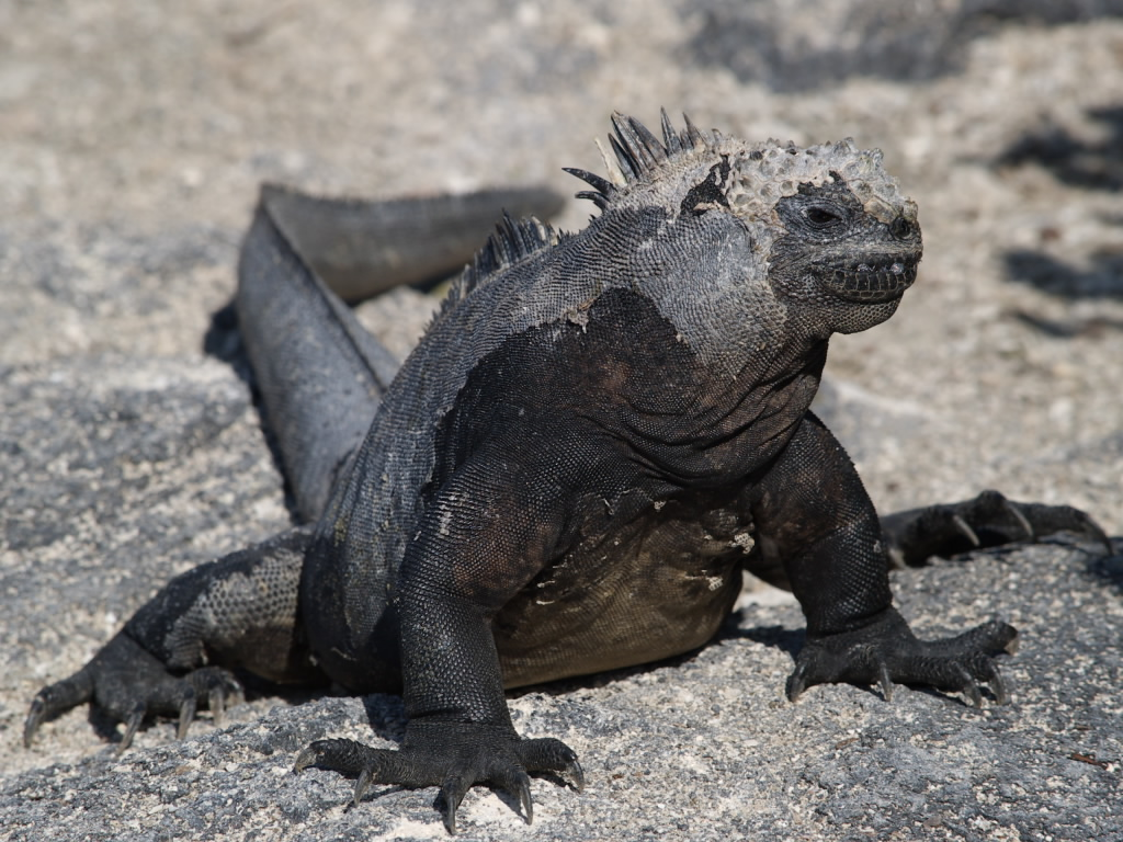 Marine iguana from Philip Greenspun's Weblog: Marine Iguana.